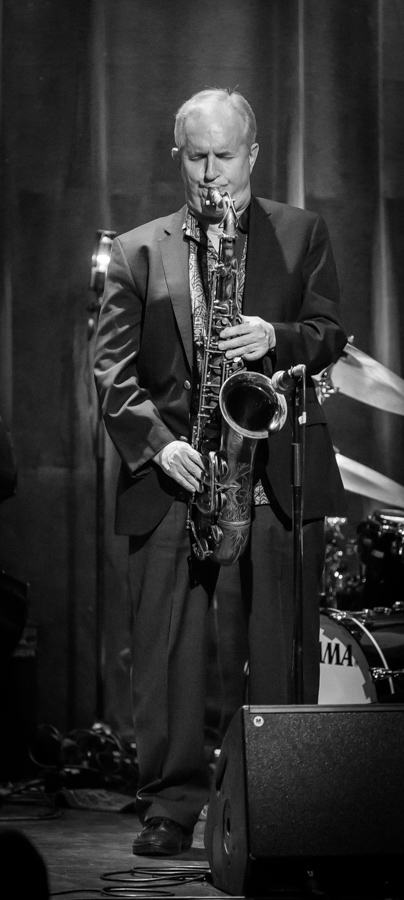 Scott Hamilton in concert at Cosmopolite, Oslo in 2015.